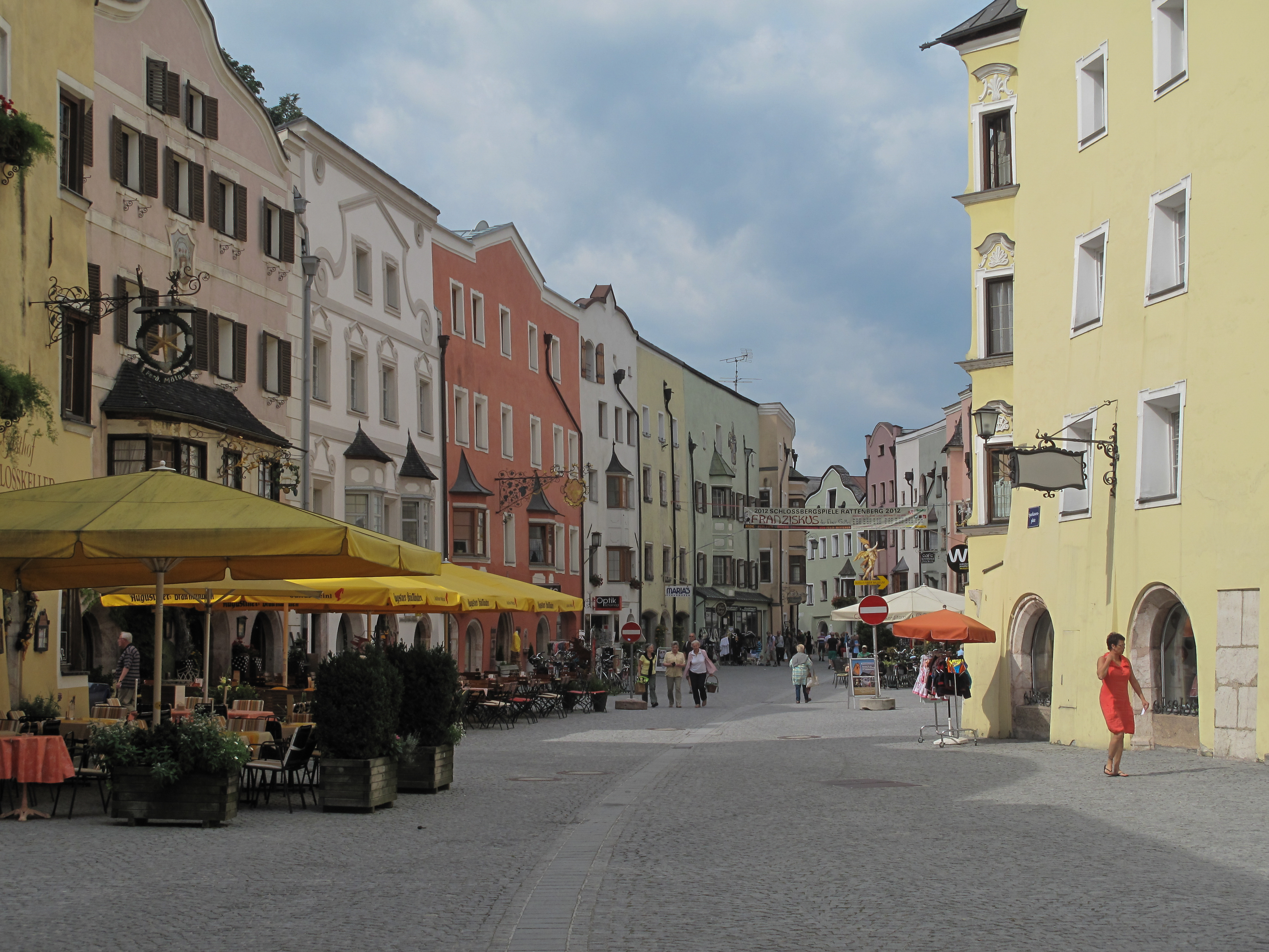 Rattenberg, view to a street: Hassauerstrasse